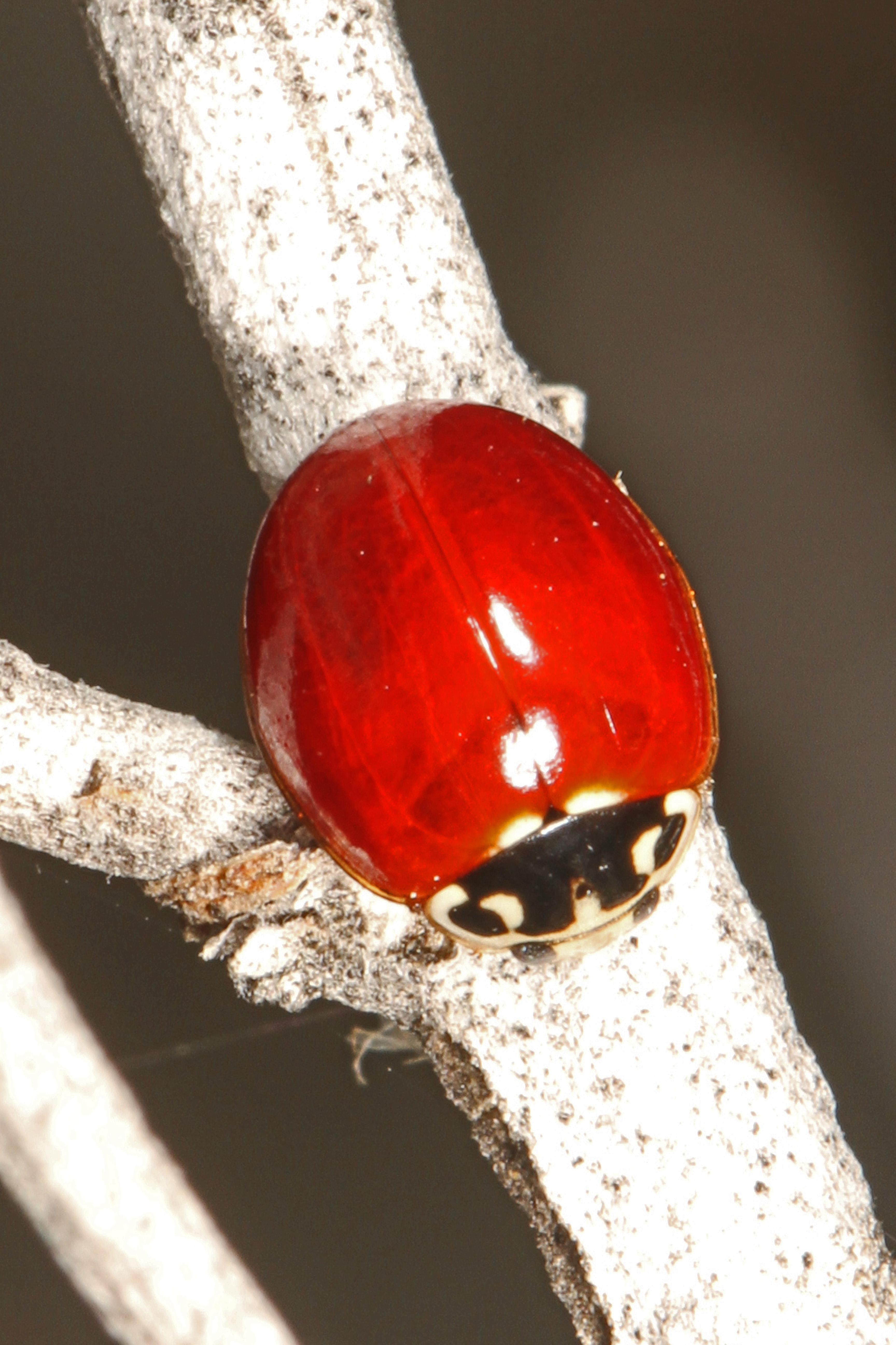 Western Blood-red Lady Beetle - Cycloneda polita, near Lake Entiat, Washington.